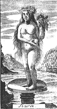 Siwa. Westphalen's book print, 1740.